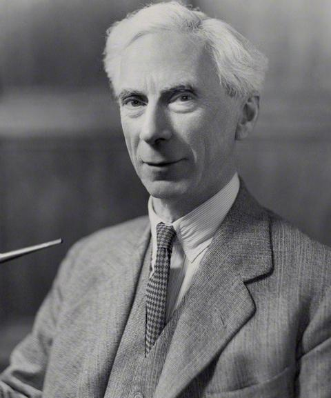 Bertrand Russell, by Bassano (1936).